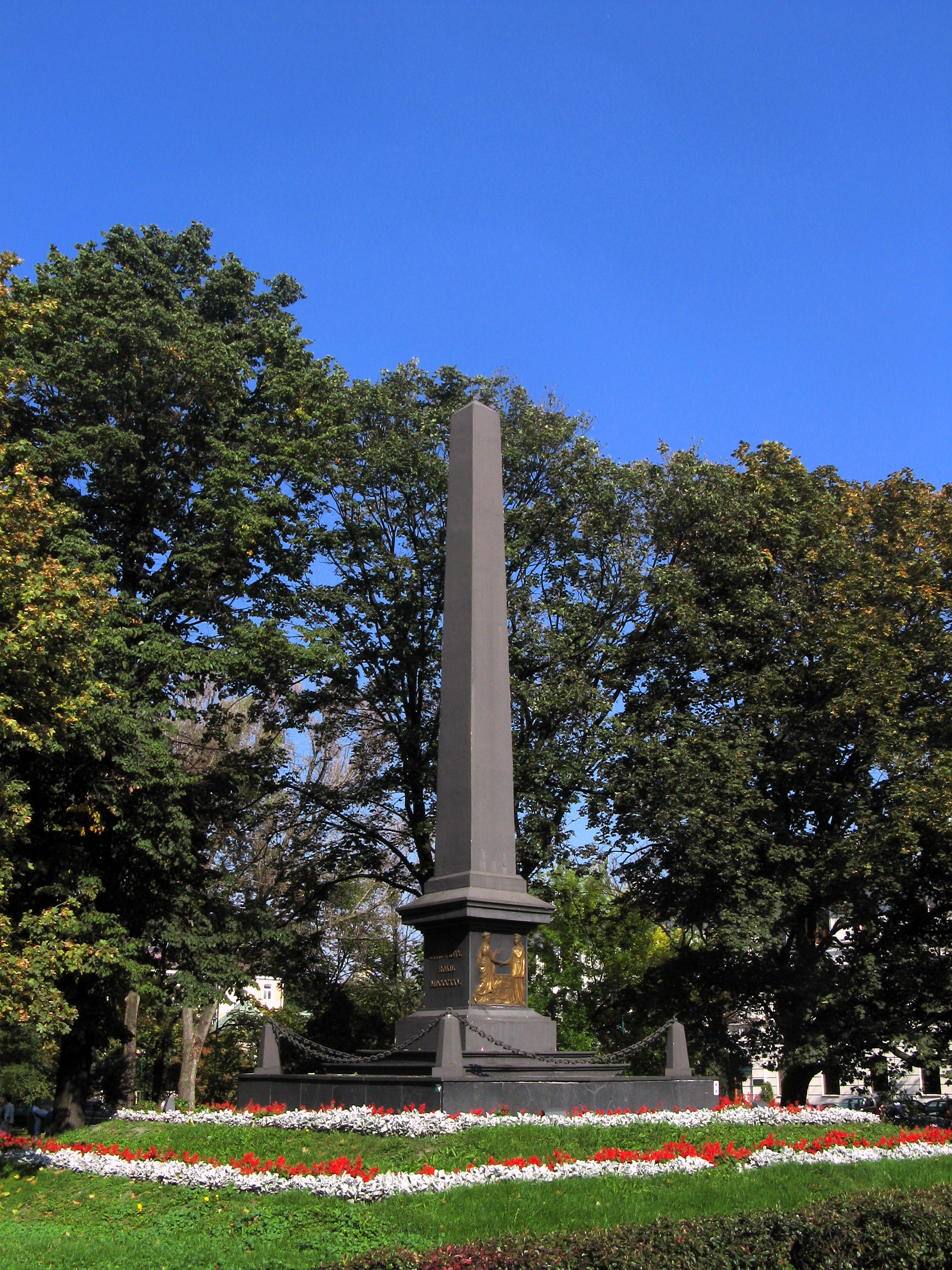 The Union of Lublin monument in Lublin Lithuanian Square before renovation.